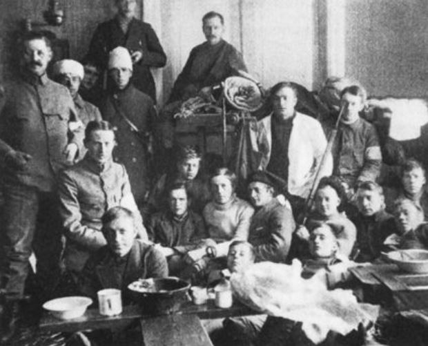 White Guard soldiers in Sysmä before the Battle of Heinola.